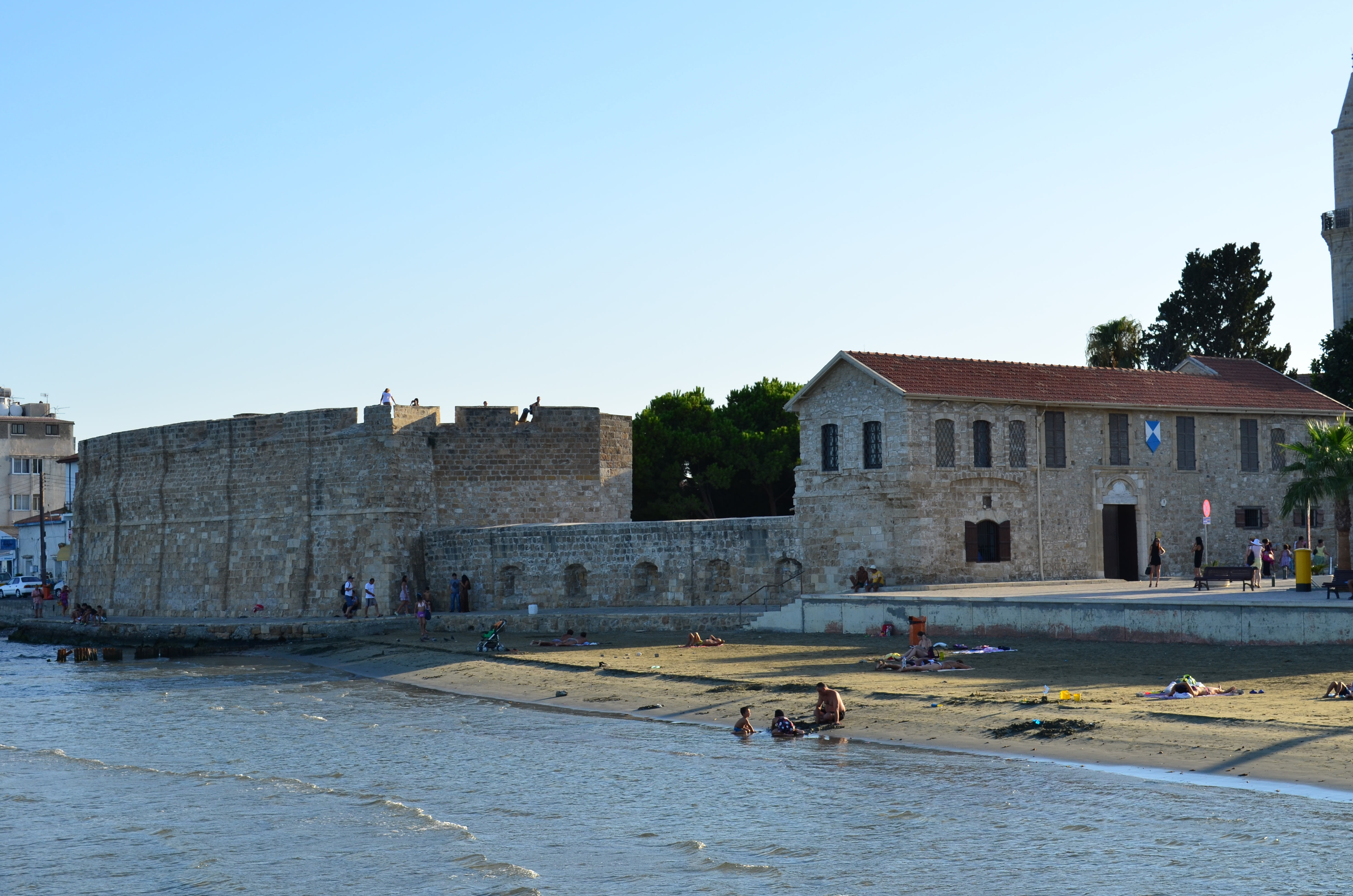 Larnaca castle